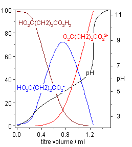 Simulated titration curve for succinic acid